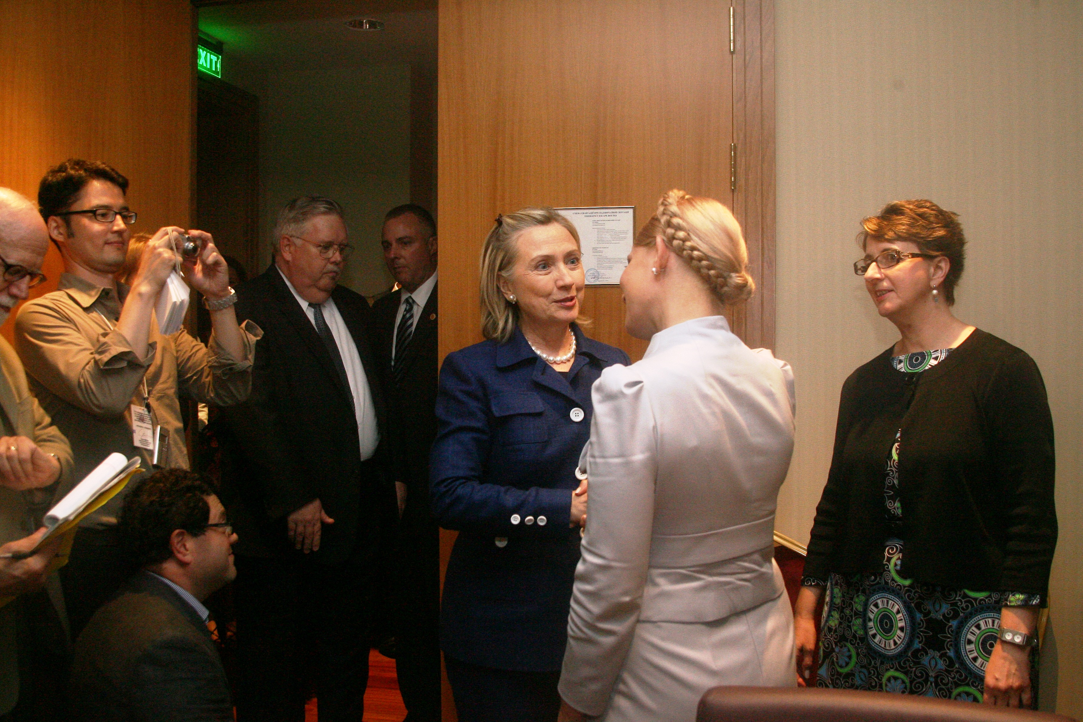 Yulia Tymoshenko meeting Hillary Rodham Clinton in Kiev (July 2, 2010).